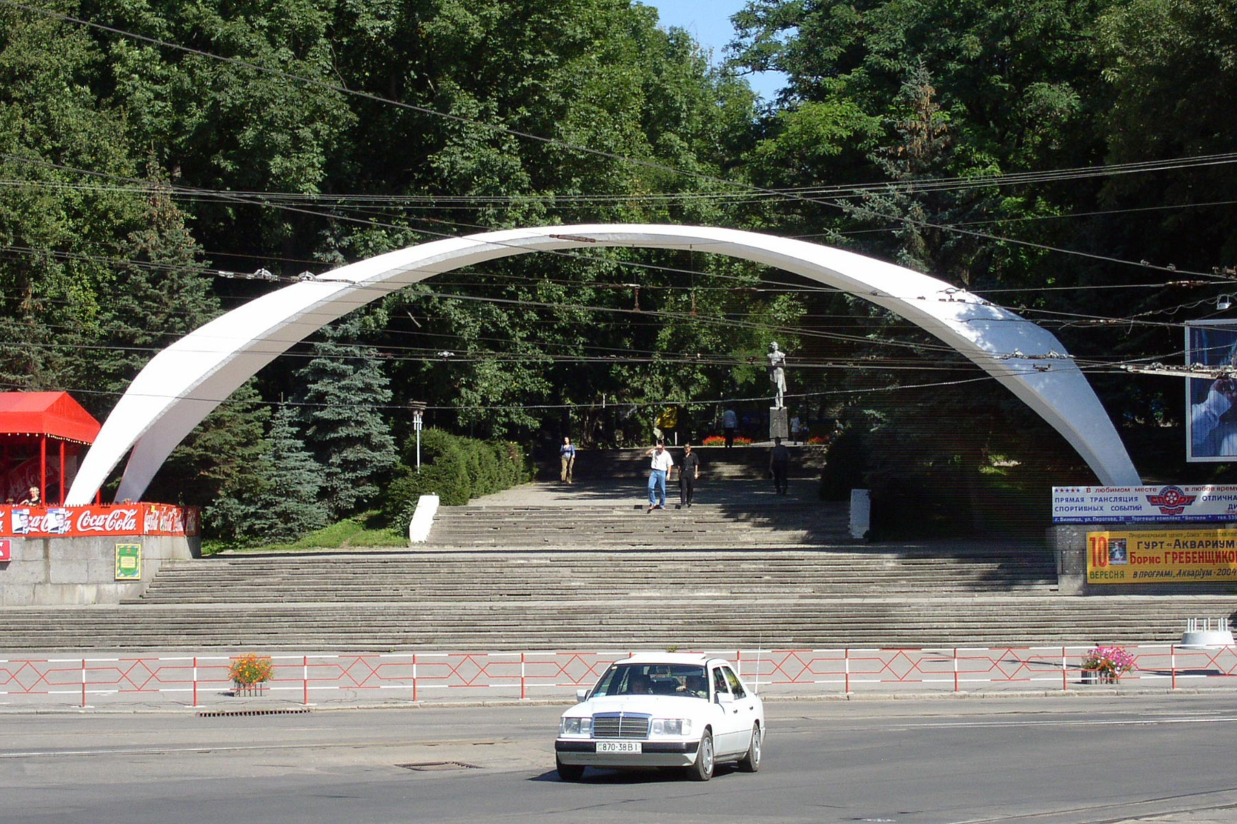 The entrance to the Gorky Park in Vinnytsia, Ukraine.